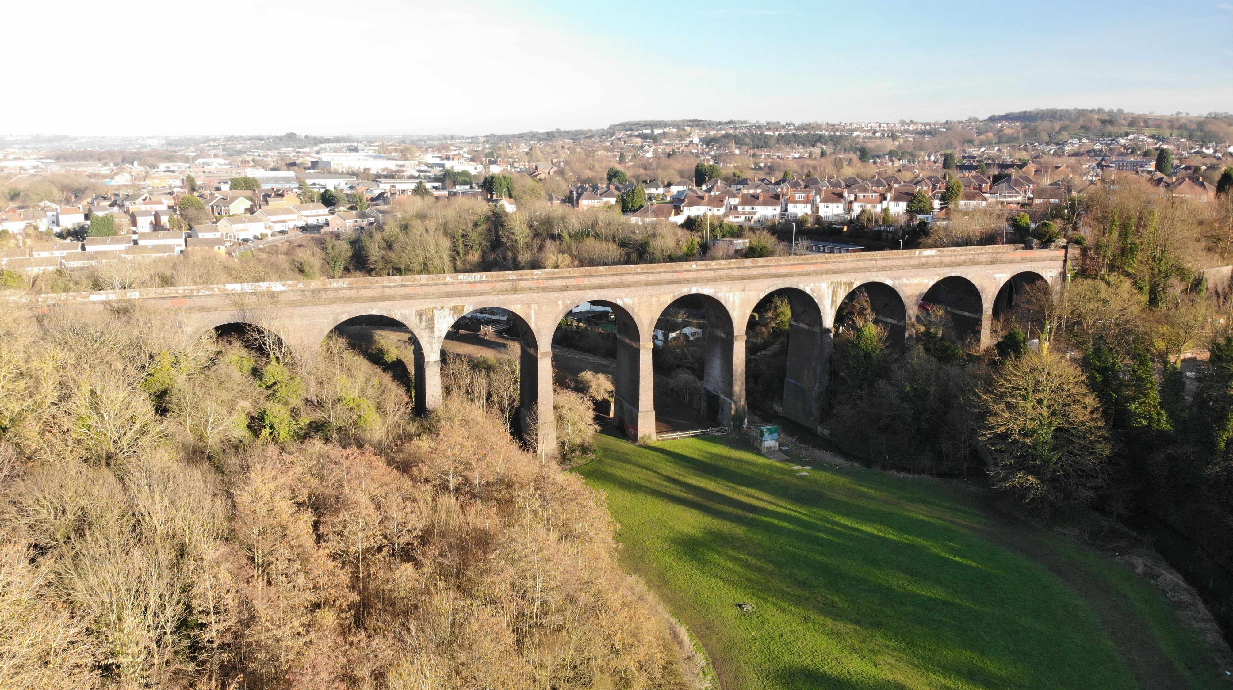 Aerial photograph of Stambermill Viaduct, Stourbridge, UK.